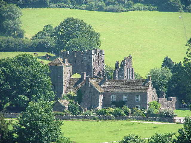 LLanthony Priory basking in the sun. Looking down at the Priory from on high